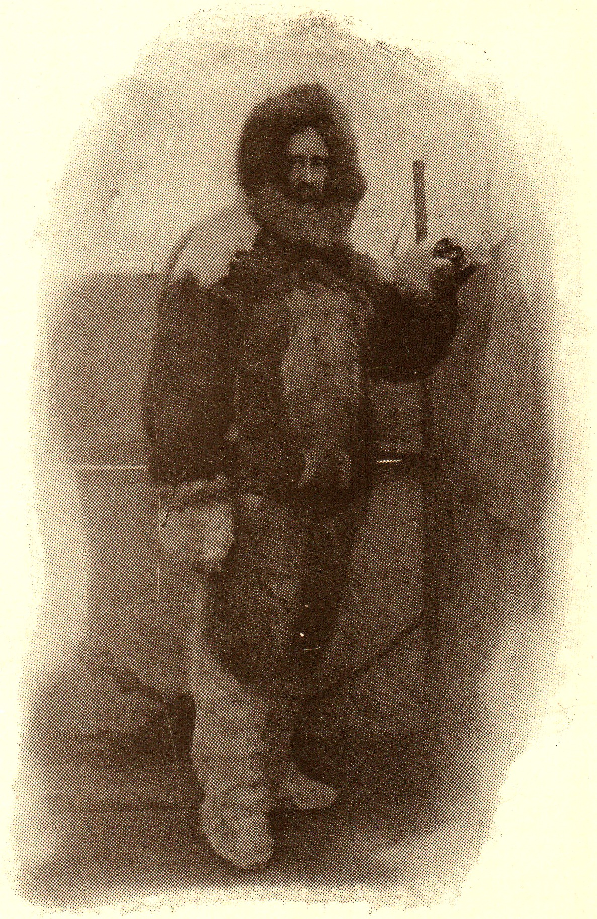 Portrait of arctic explorer Robert E. Peary in his travel gear.